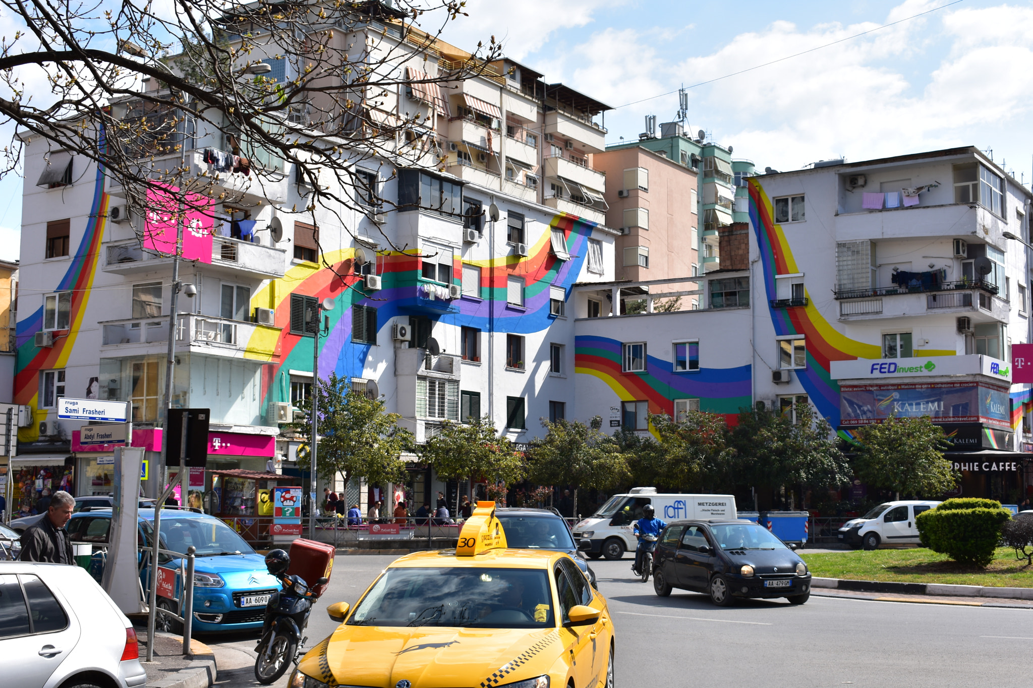 500px provided description: The colored stripes along the buildings paint the landscape for traffic in Tirana, Albania. [#sky ,#city ,#street ,#travel ,#car ,#transportation ,#architecture ,#cityscape ,#road ,#building ,#skyline ,#architectural ,#Europe ,#Eastern Europe ,#Albania ,#Mediterranean ,#Balkans ,#Tirana ,#Albanian]